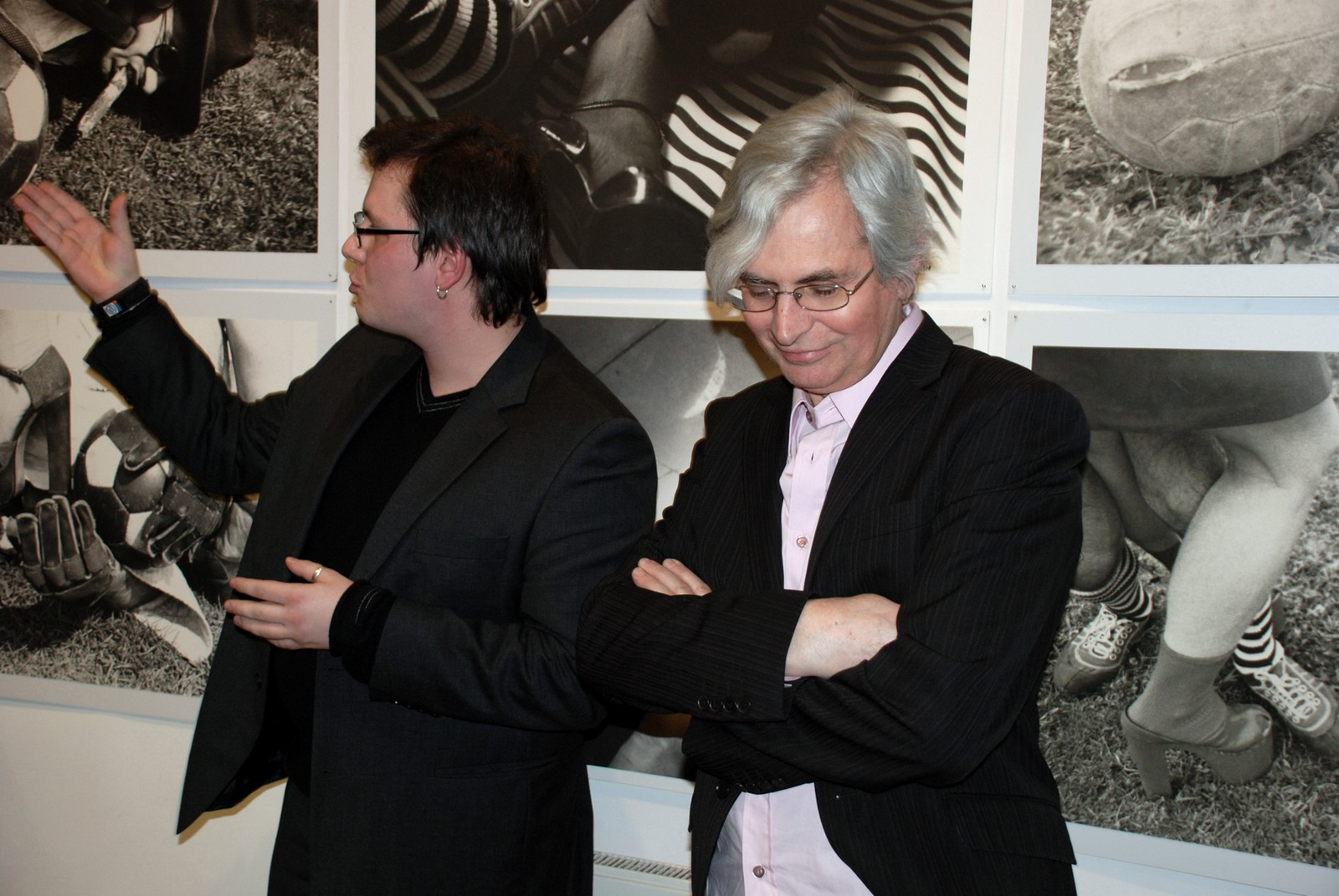 Zdzisław Sosnowski’s exhibition, My Time, February – April 2008, from left to right: Krzysztof Siatka, Zdzisław Sosnowski, Paweł Dudziński; fot. Zofia Waligóra